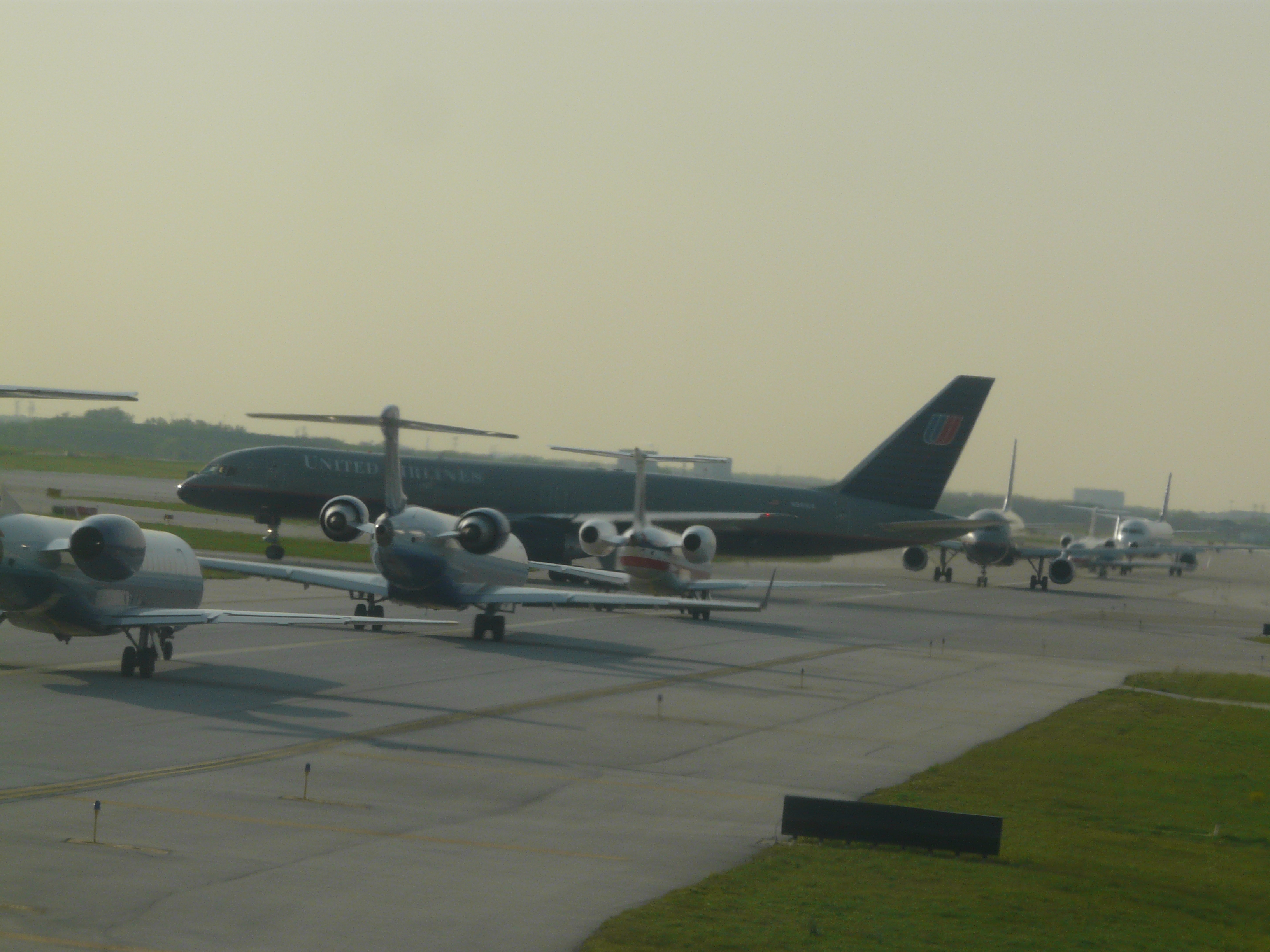 Aircrafts lined on taxiway